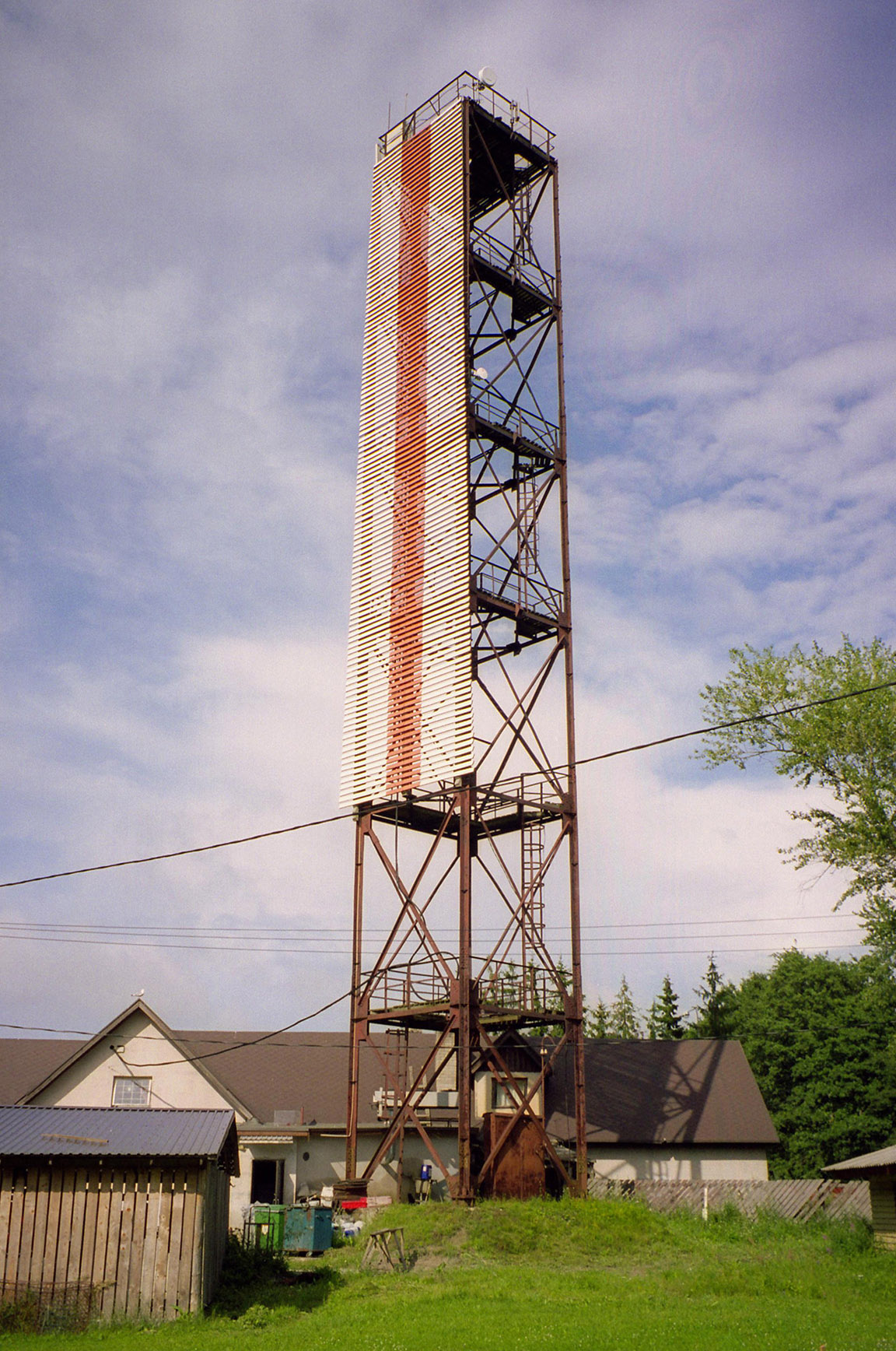 Viimsi front light beacon